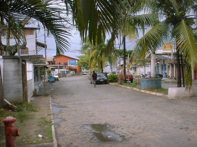 Town of manguinhos-ES This photo is of my authorship, and was taken July 2004. Kurogawa 00:48, 26 Jul 2004 (UTC)